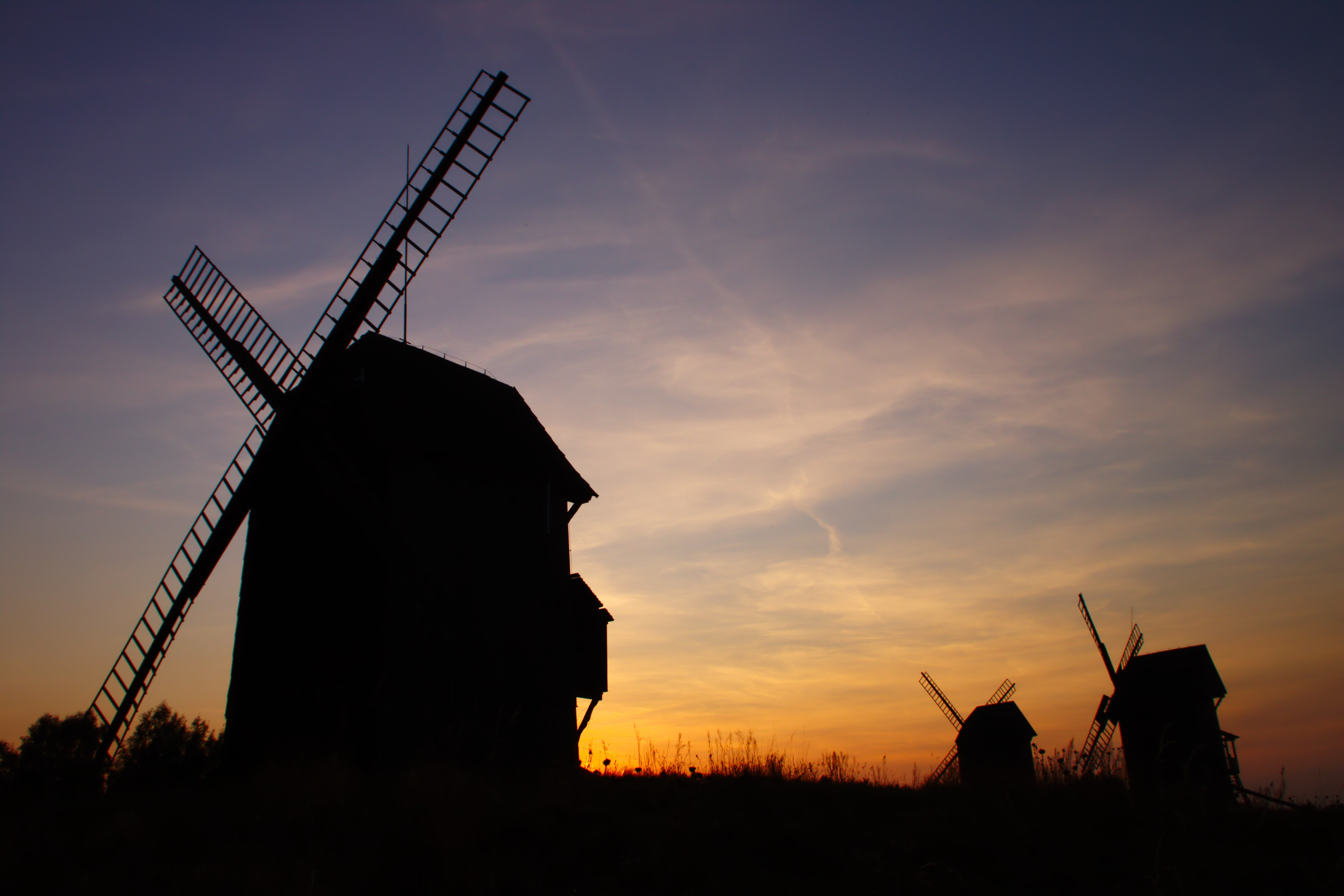 Windmills in Lednogóra during sunset, Greater Polish Voivovdeship, Poland.